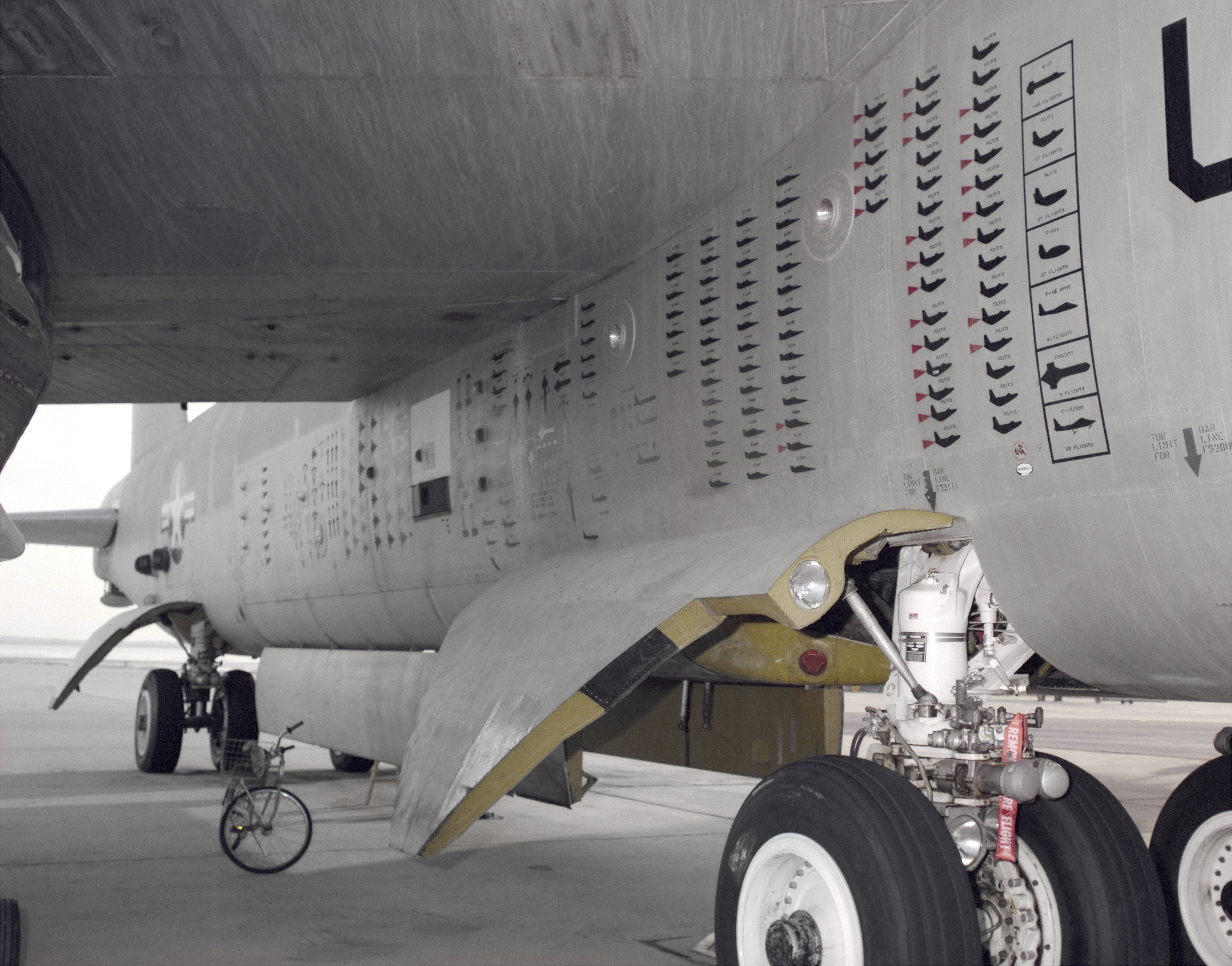 NASA's NB-52B "Balls 8" showing mission markings.